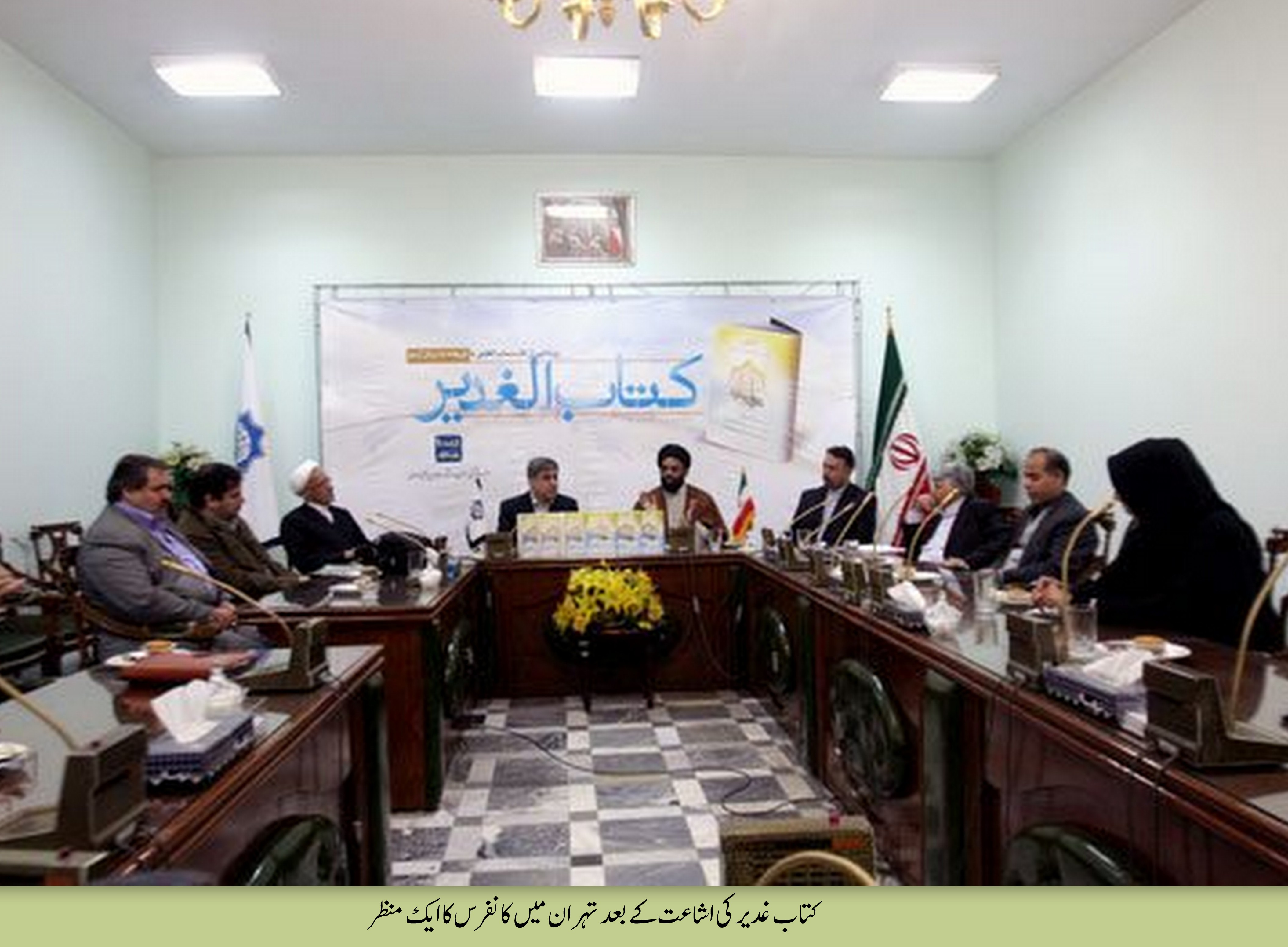 The unveiling ceremony of book al-ghadeer urdu translation on Monday, Nov. 14, in the Islamic Culture and Relations Organization tehran, iranat 10:30 am.